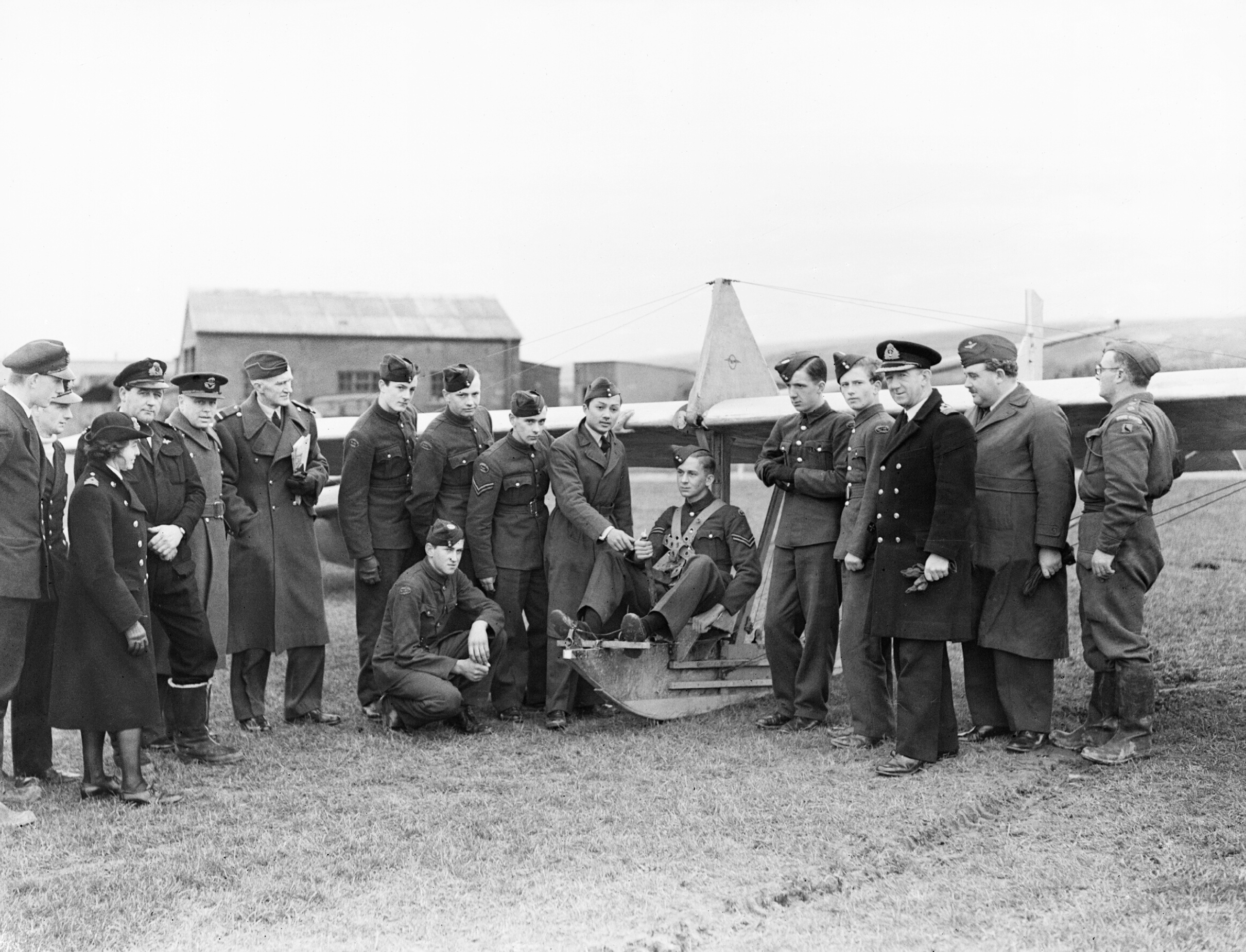 Air cadets learn the basics of flight at RNAS St Merryn in Cornwall, February 1944. Flight Lieutenant Prince Birabangse, well known in peacetime as the racing motorist B Bira, but now Chief instructor at the school, shows a cadet how to handle the controls of an elementary glider. From left to right: Sub Lieut (A) W A Murray, RNVR, an instructor; Lieut Cdr (A) K Garston-Jones, RNVR, Chief Liaison Officer to the ATC for HMS VULTURE; Squadron Leader Sir John Mclesworth St Aubyn; Air Commodore W Sawrey; Flight Lieut Prince Biribangse, Capt W P McCarthy, RN, Commanding Officer HMS VULTURE; Flying Officer J Wills, Commanding Officer of Liskeard, Cornwall ATC, cadets and Lieut M H Powell, of the Home Guard. The Wren Officer is Second Officer K B Morris, of HMS VULTURE.